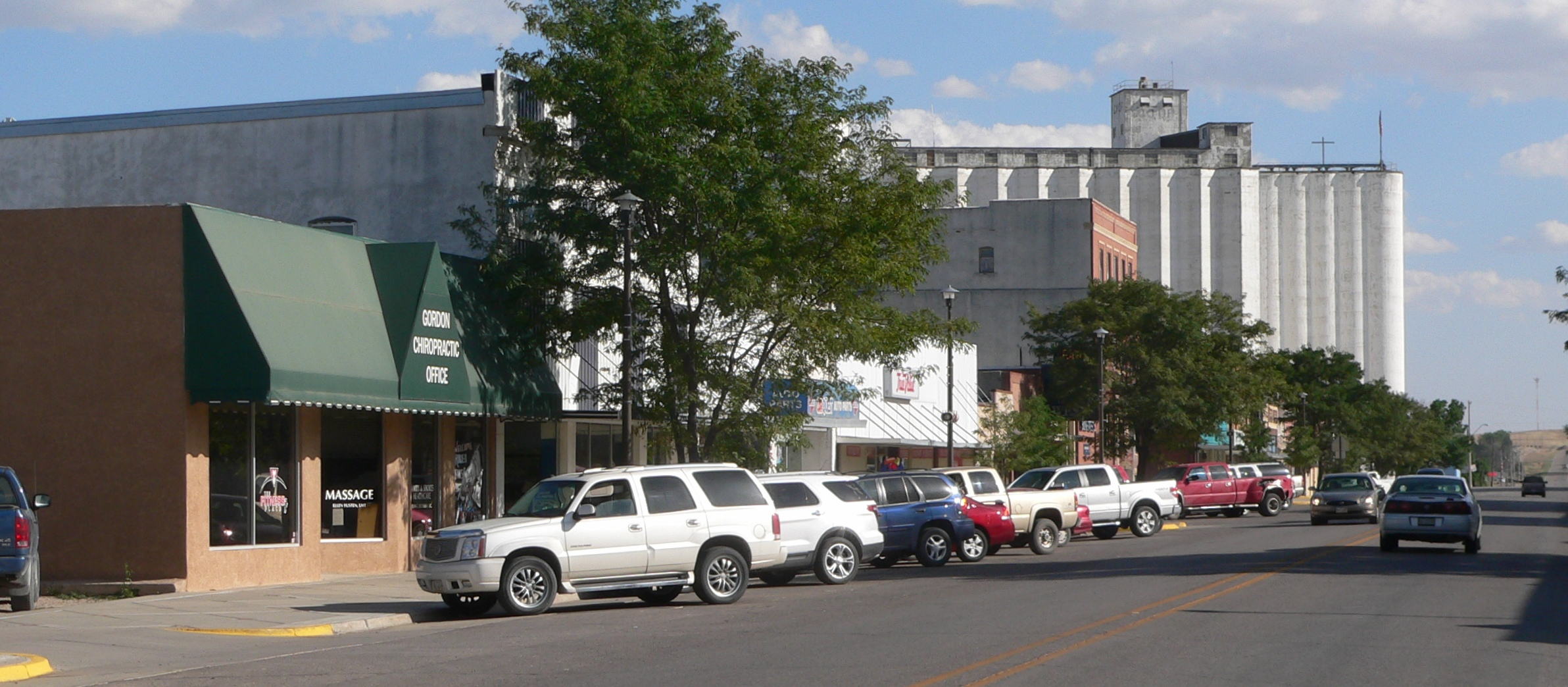 Downtown Gordon, Nebraska: east side of Main Street, looking southeast from about 3rd Street.